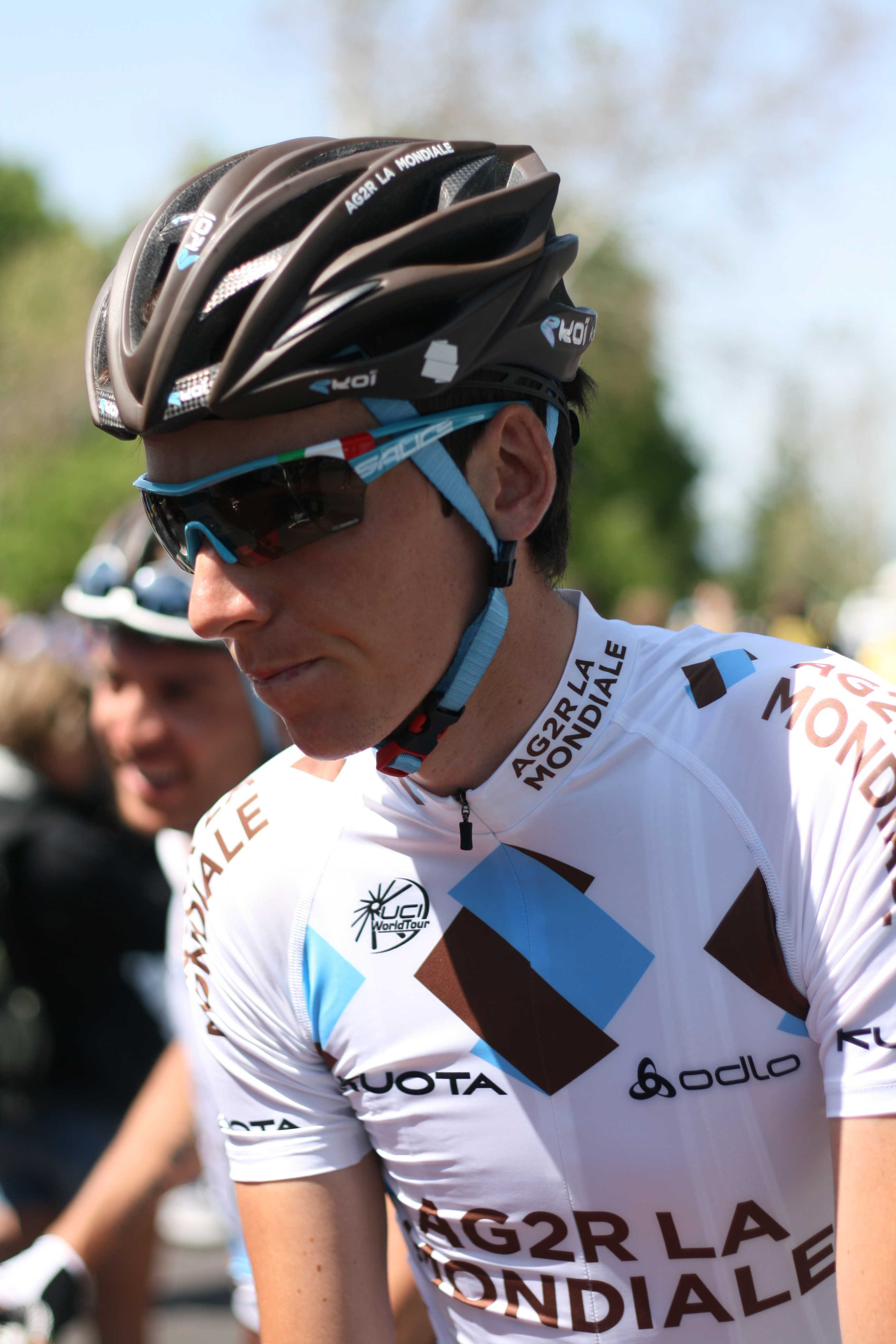 2012 Amgen Tour of California Stage 3 start, Berryessa Road, San Jose, CA